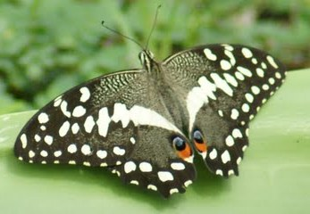 Citrus Swallowtail (Papilio Demodocus) butterfly. This examplar is in Nungwi, in the Unguja North Region of Zanzibar Island, Zanzibar Archipelago, Indian Ocean, Tanzania.